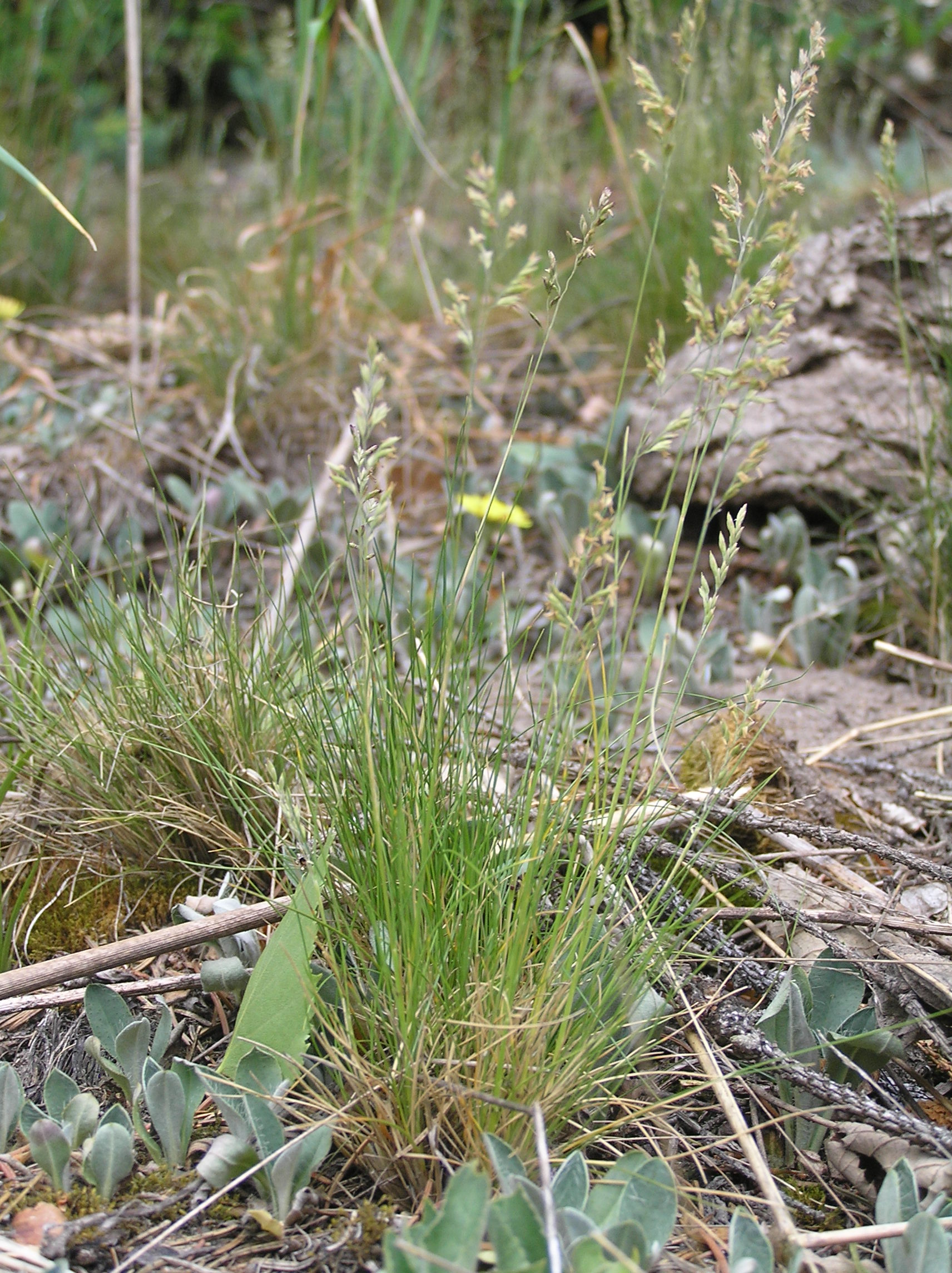 Festuca filiformis, Rusava, Moravia, Czech Republic